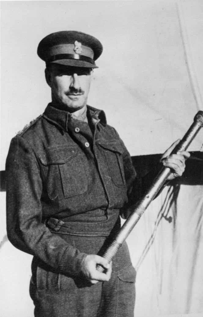 Stephen Cyril Ettrick Weir and artillery rammer, late 1941/early 1942. Original photographic prints and postcards from file print collection, Box 13. Ref: PAColl-6407-90. Alexander Turnbull Library, Wellington, New Zealand. The creator of this work was most likely an official photographer of the NZ Military Forces and thus copyright in this work probably rests or rested with the Crown. The Crown has released this work under the CC-BY 3.0 unported license. Refer to source website for details: This work's copyright expired 50 years after creation in New Zealand and probably also in countries following the rule of the shorter term